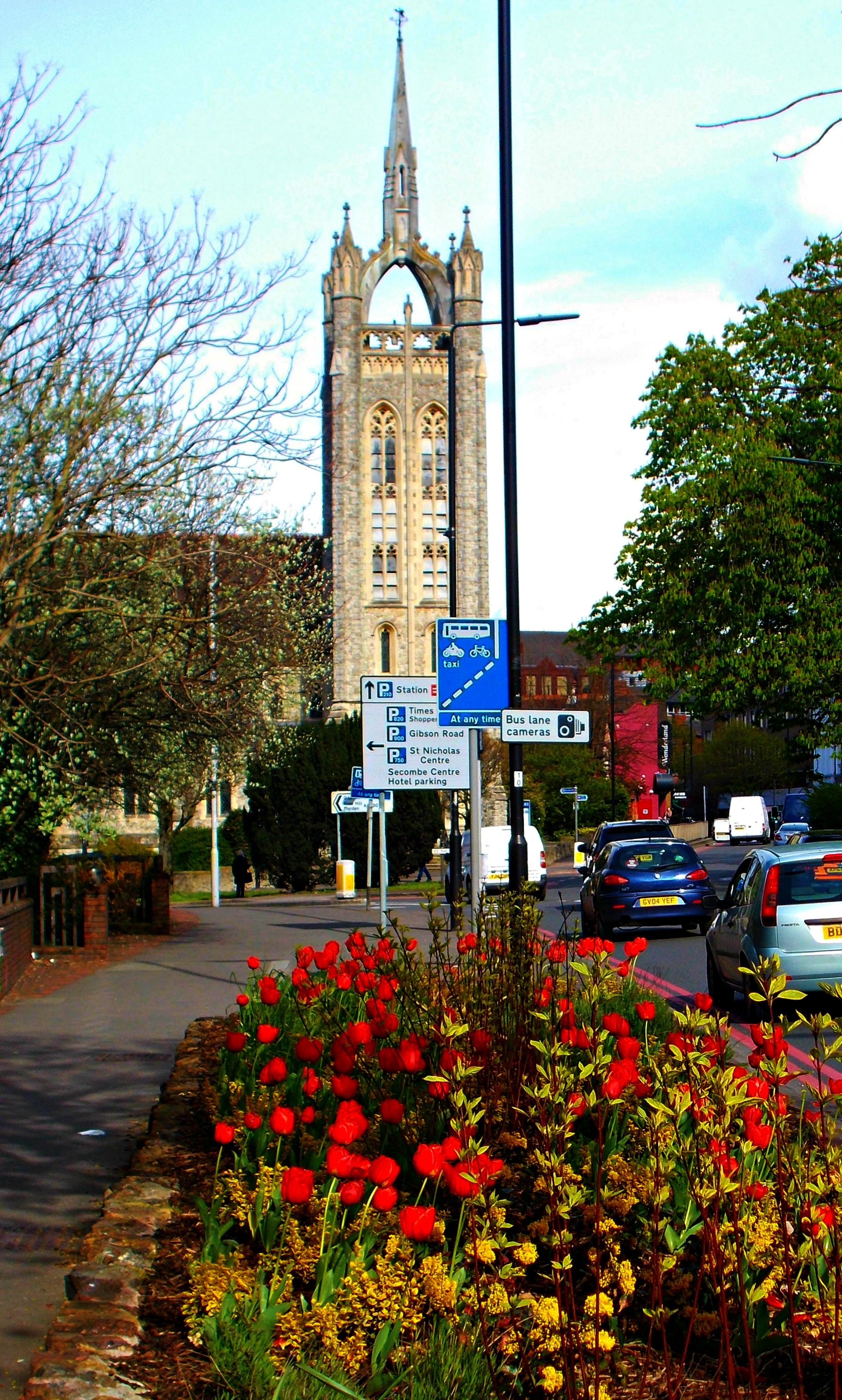 Sutton is a commuter town within Greater London, 10 miles from central London.